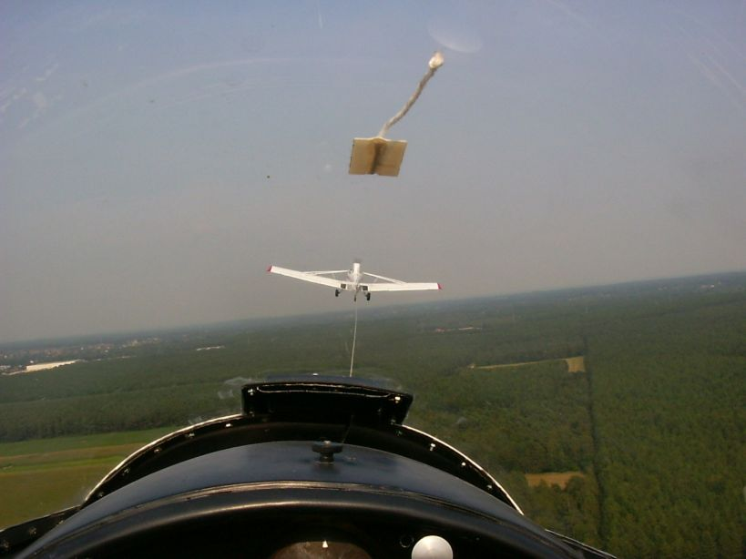 Gliding.